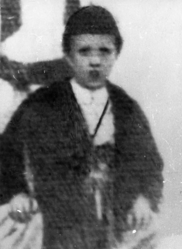 National hero of Yugoslavia